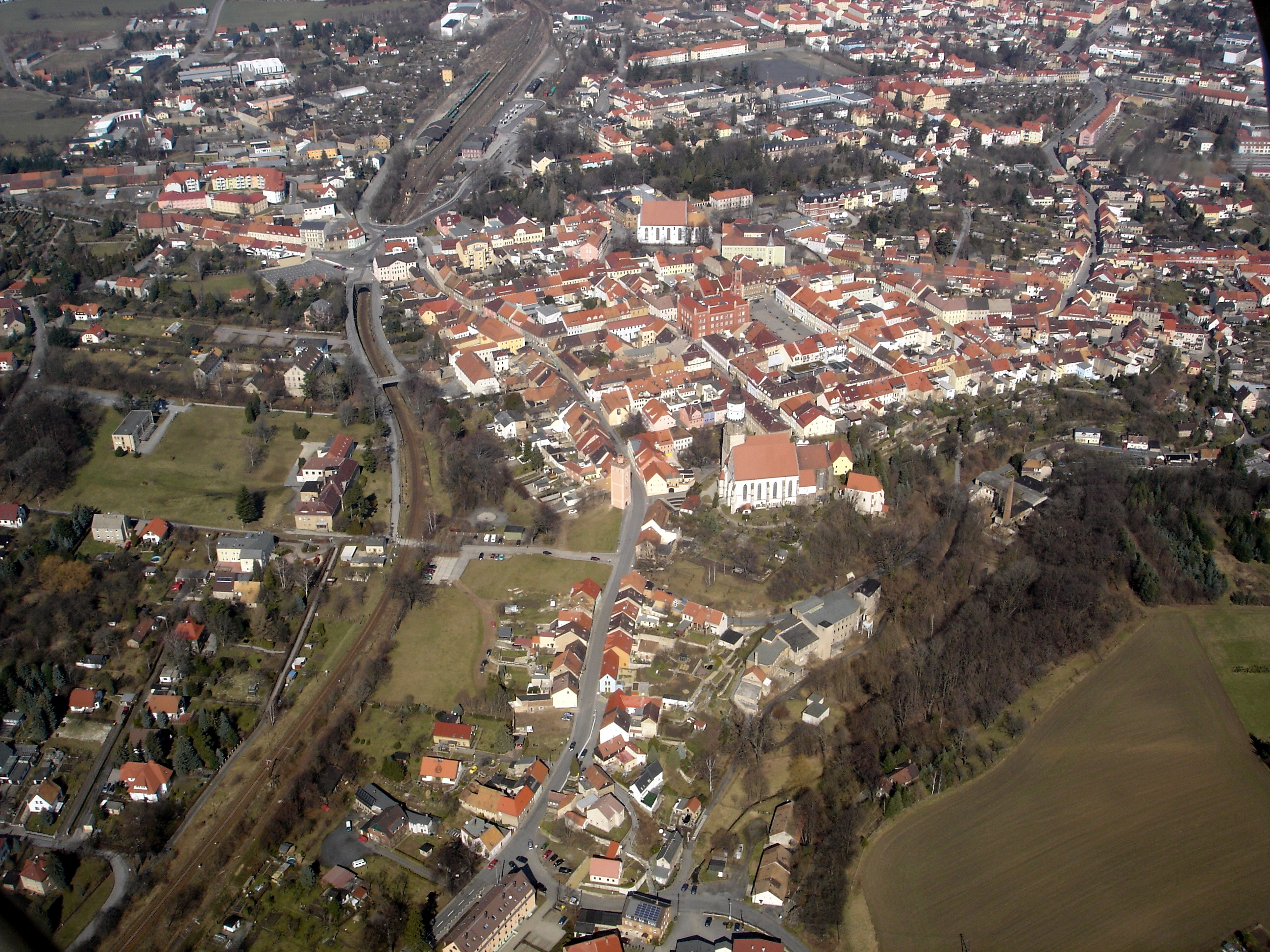 Description: Picture of German City Kamenz from the air Source: Picture taken by myself Date: 20. March 2005 Author: TKN Permission: TKN put it under CC-by-SA no other versions